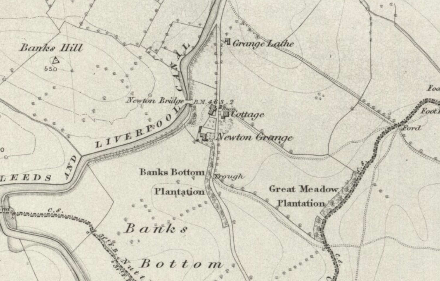 Map of Newton Grange, Skipton 1848